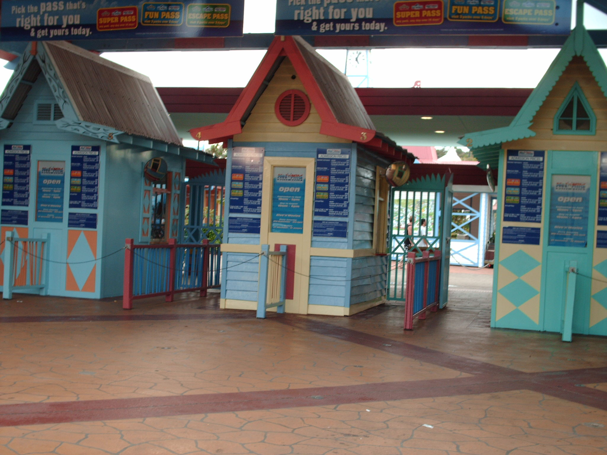 Ticket booth at Wet'n'Wild Water World